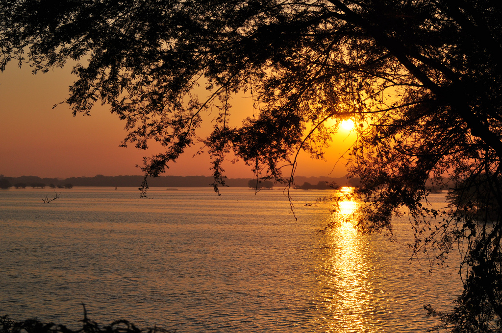 Thor is one of the popular bird sanctuary located near Ahmadabad Gujarat. This place attract people interested in bird watching, bird photography and landscape photography.